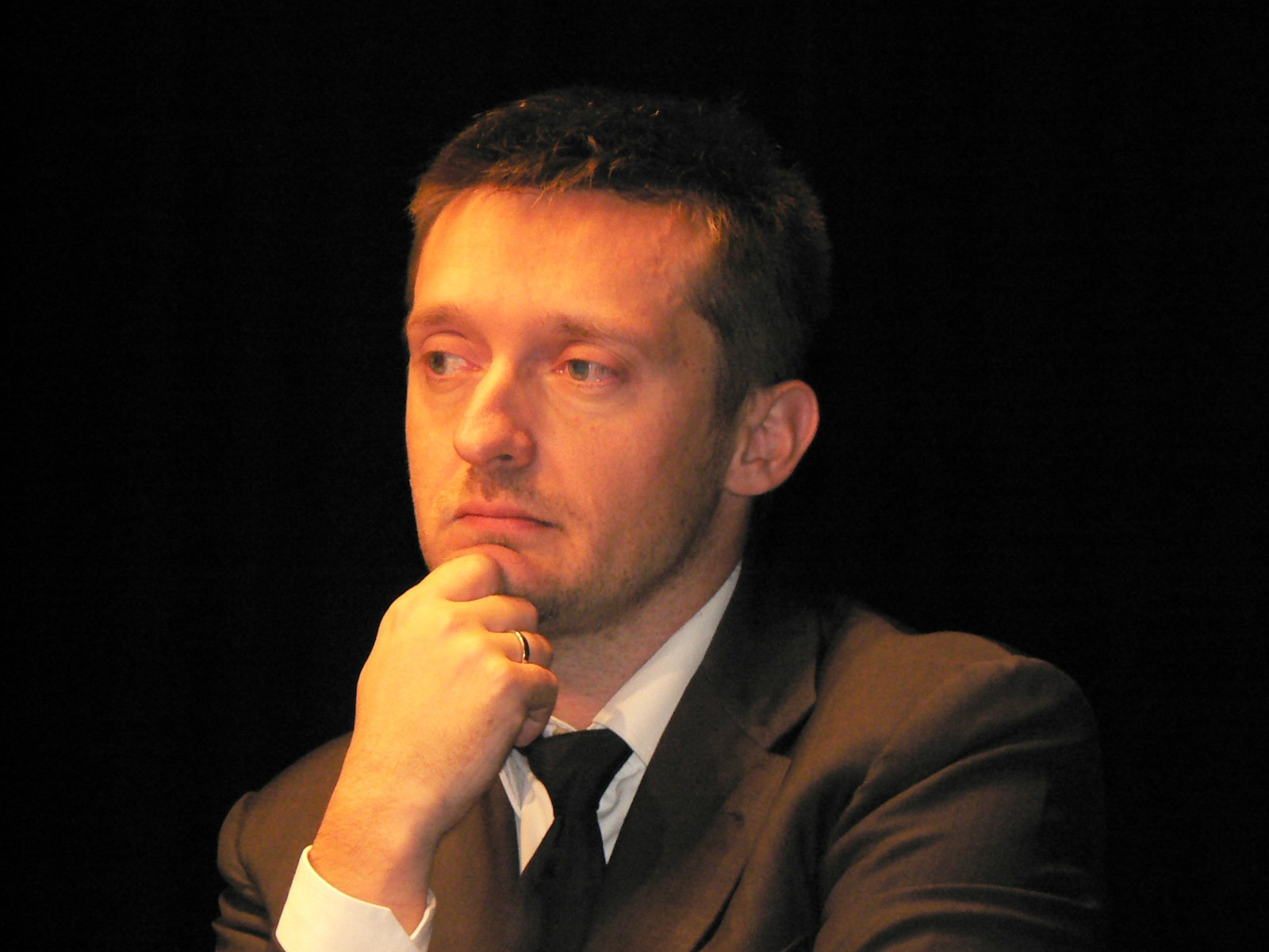 Rogán Antal egy 2009-es politikai fórumon Solymáron